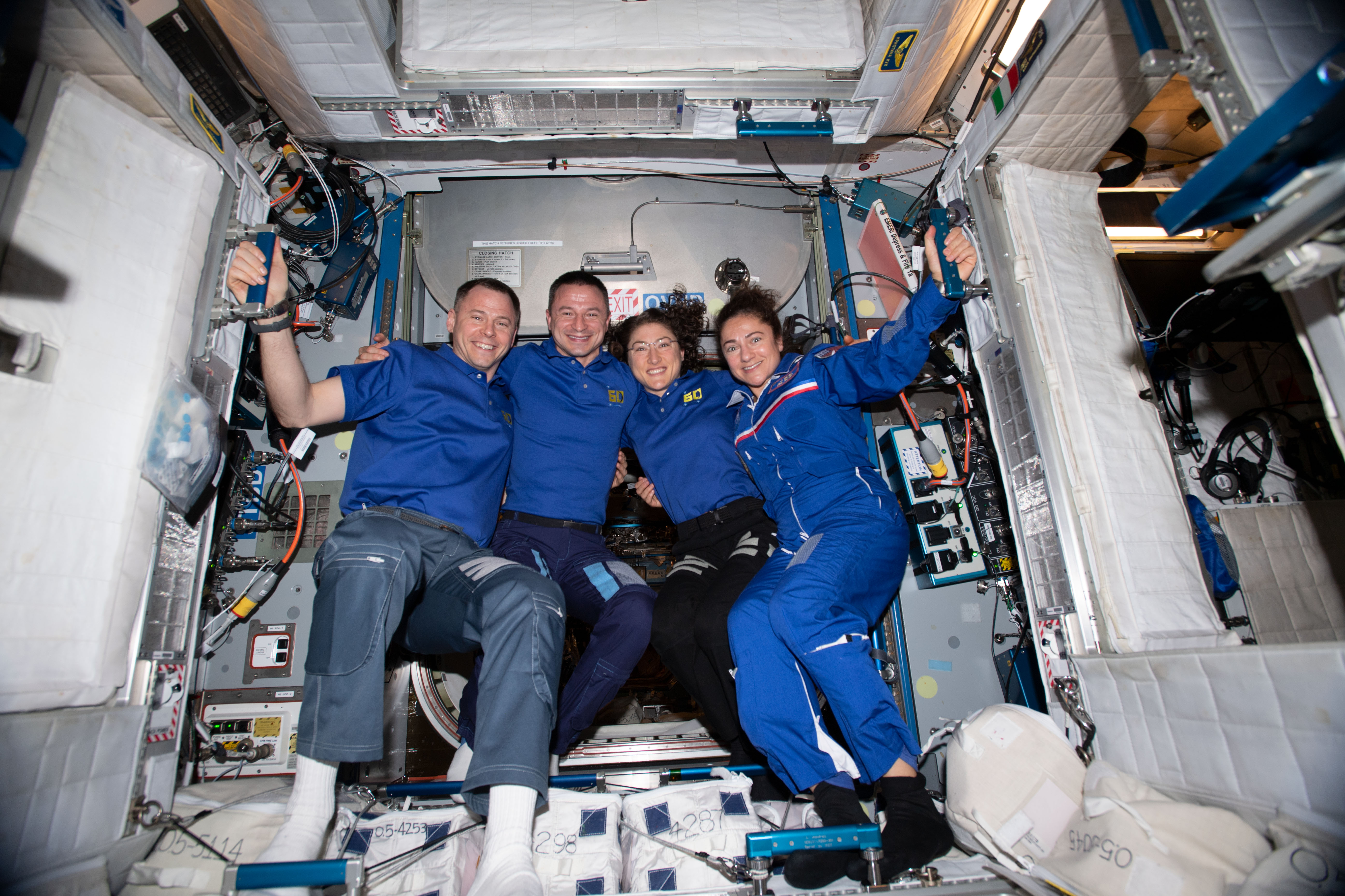 Four NASA astronauts, all members of the Astronaut Class of 2013, pose for a portrait aboard the International Space Station. From left are Flight Engineers Nick Hague, Andrew Morgan, Christina Koch and Jessica Meir.